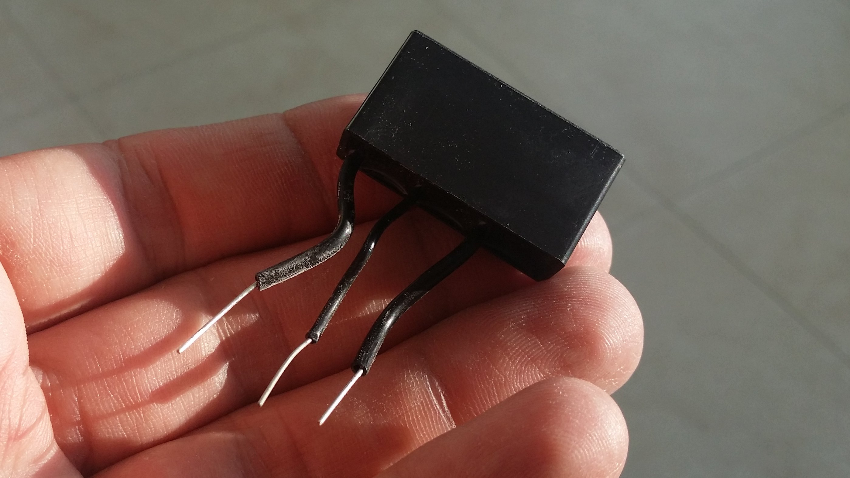 Capacitor from a french landline. It was used by France Telecom to perform checks on the lines, but it is now recommended to remove it as it can prevent ADSL internet access from functioning properly..